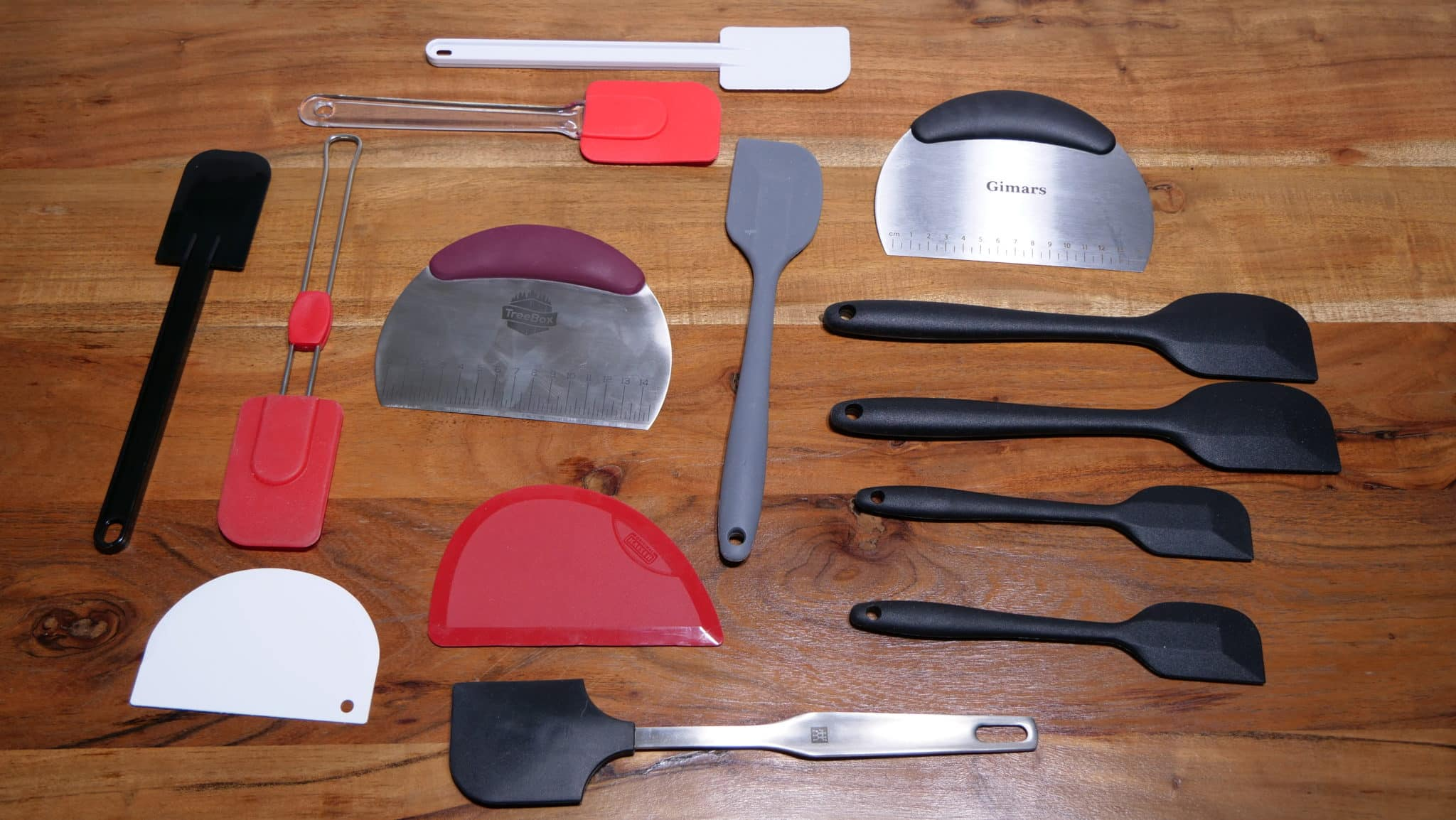 Overview of dough scraper with different forms and materials.